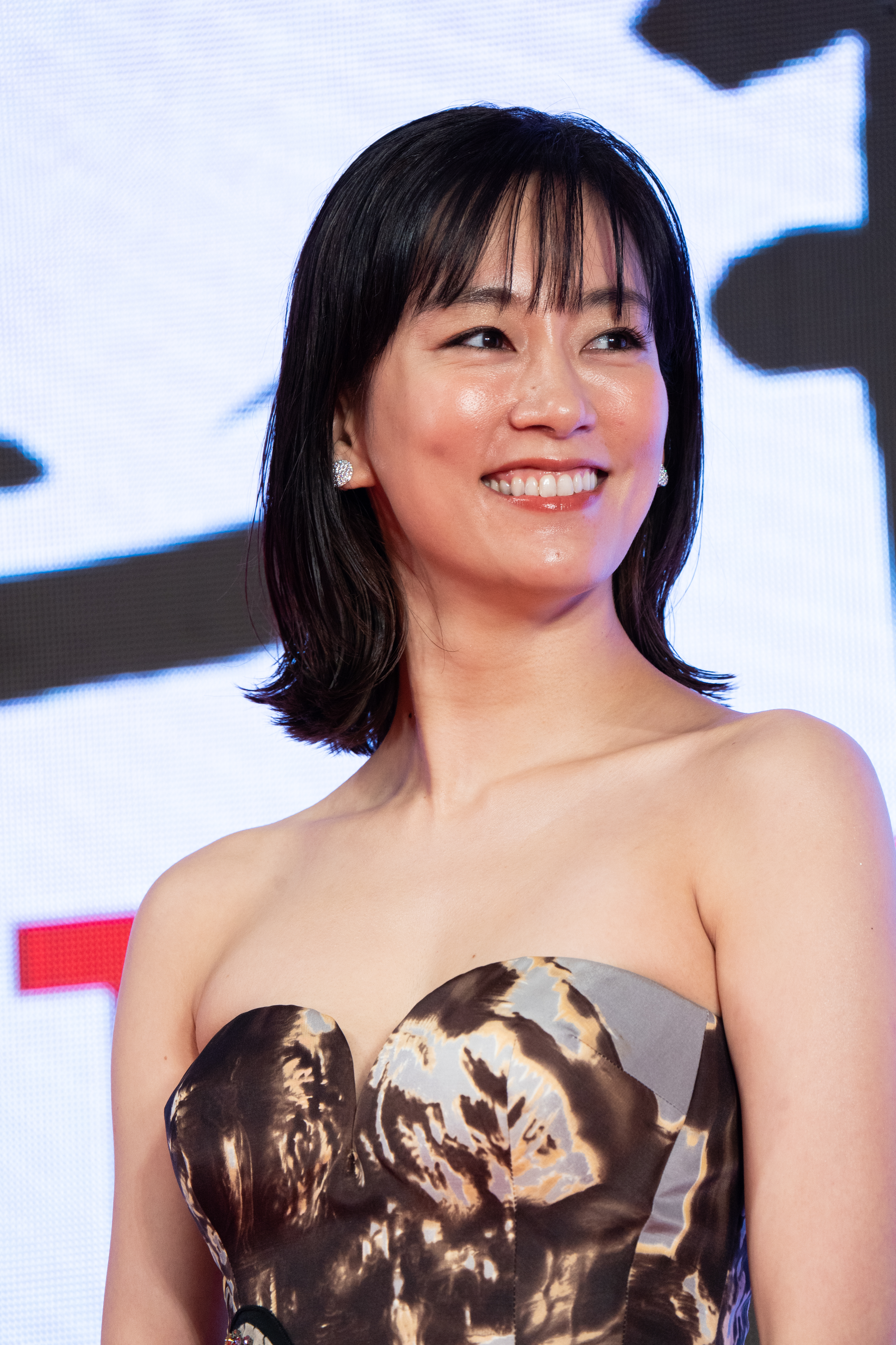 Asami Mizukawa from "A Beloved Wife" at Opening Ceremony of the Tokyo International Film Festival 2019